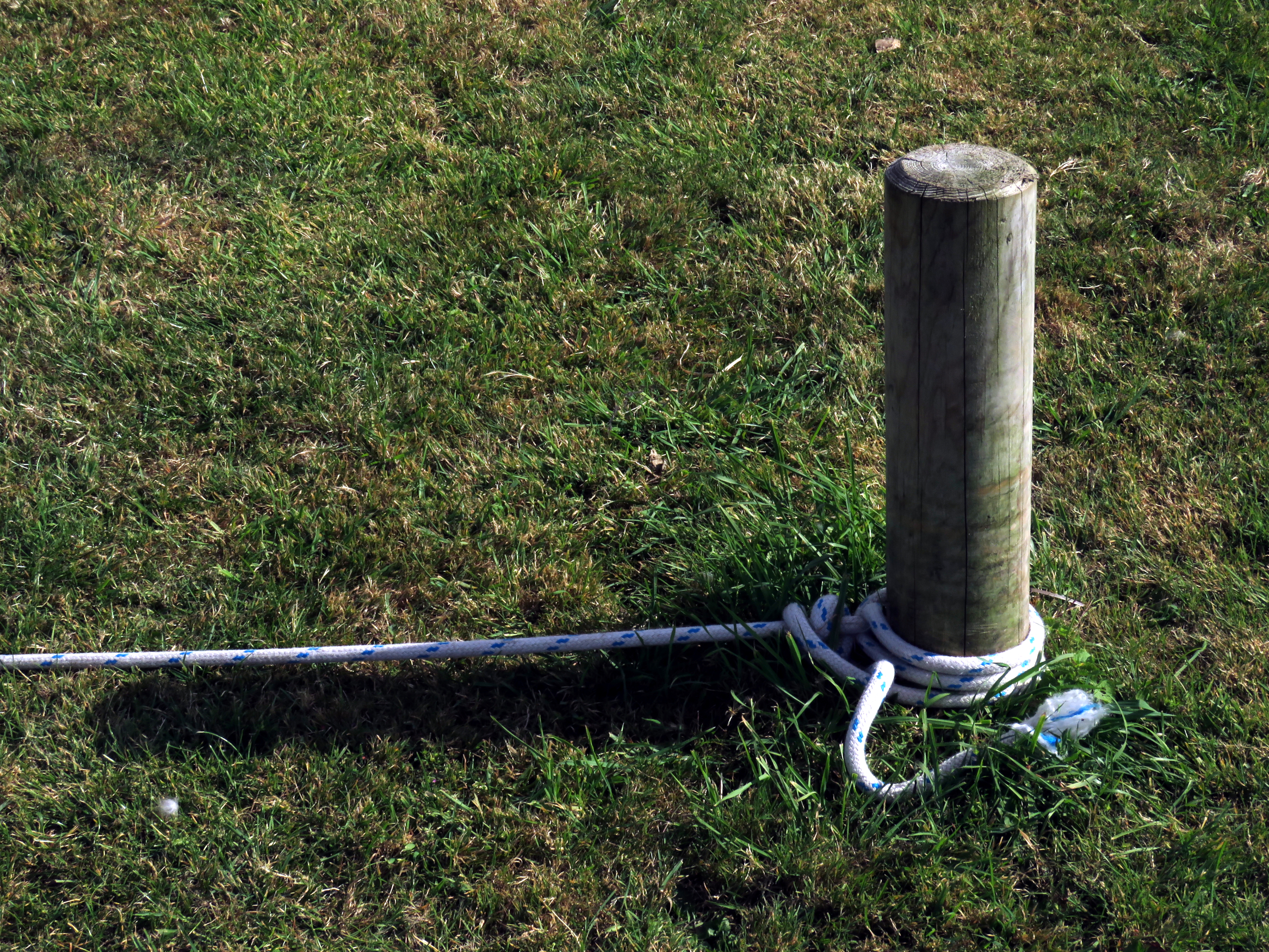 A mooring post with rope tied to a near by boat. Near Shiplake, UK.